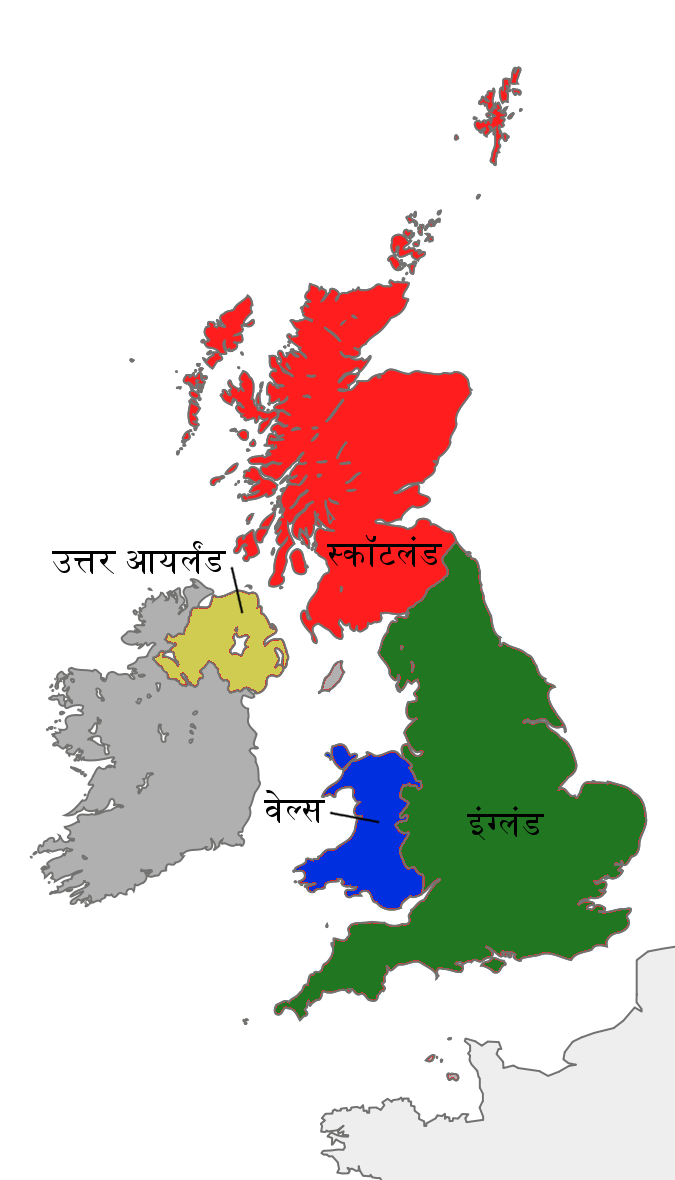 Four different countries of the United Kingdom in Marathi